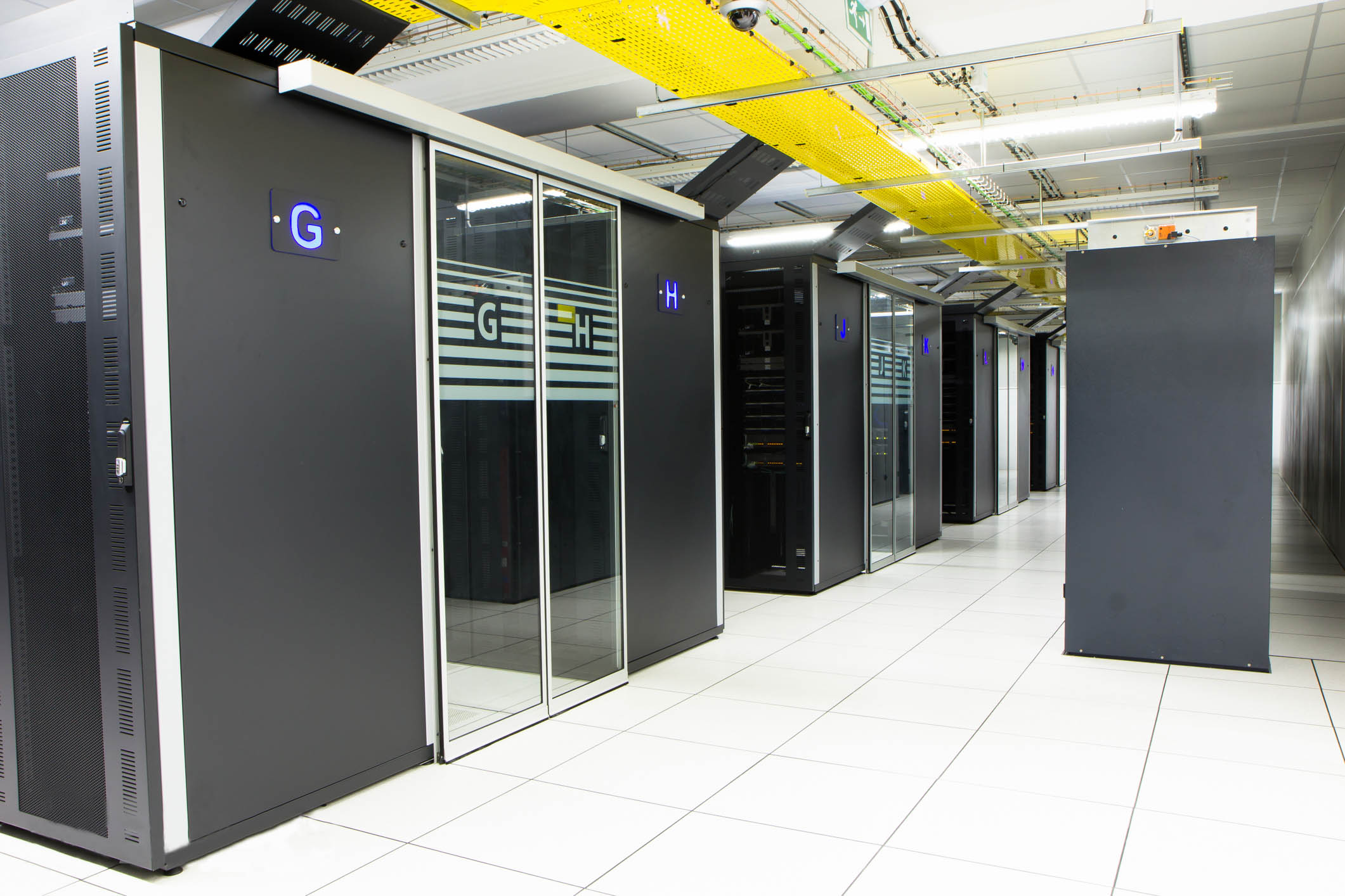 Outscale Datacenter